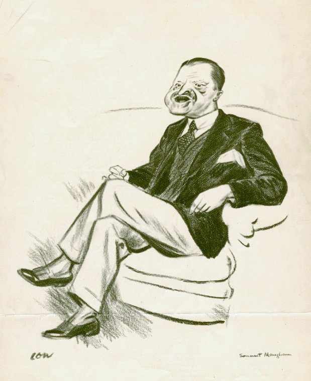 Caricature of British novelist W. Somerset Maugham